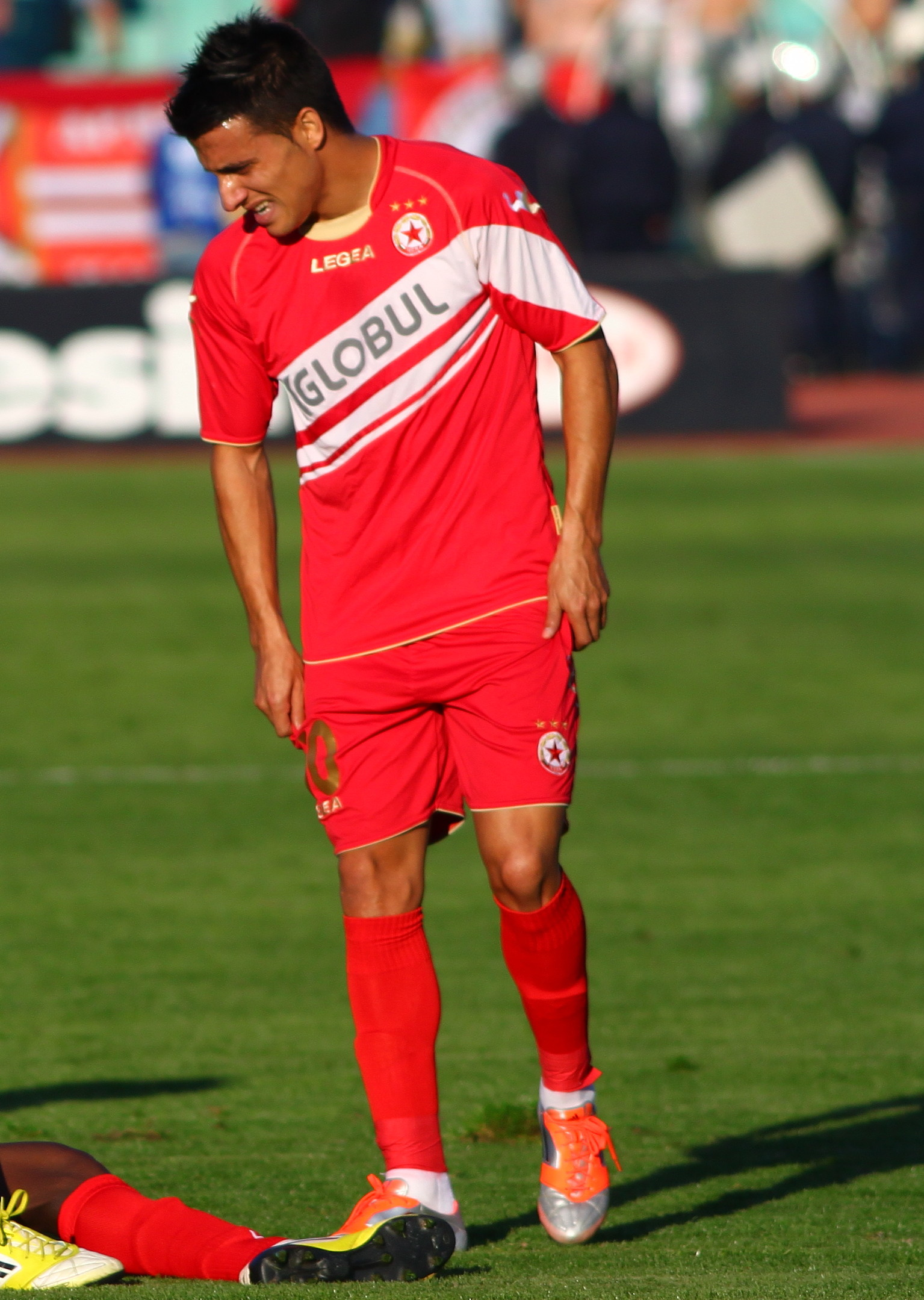 Sérgio Filipe Dias Ribeiro, commonly known as Serginho, (born 16 June 1985 in Porto) is a Portuguese footballer who plays for PFC CSKA Sofia in the Bulgarian A Professional Football Group, as a midfielder.